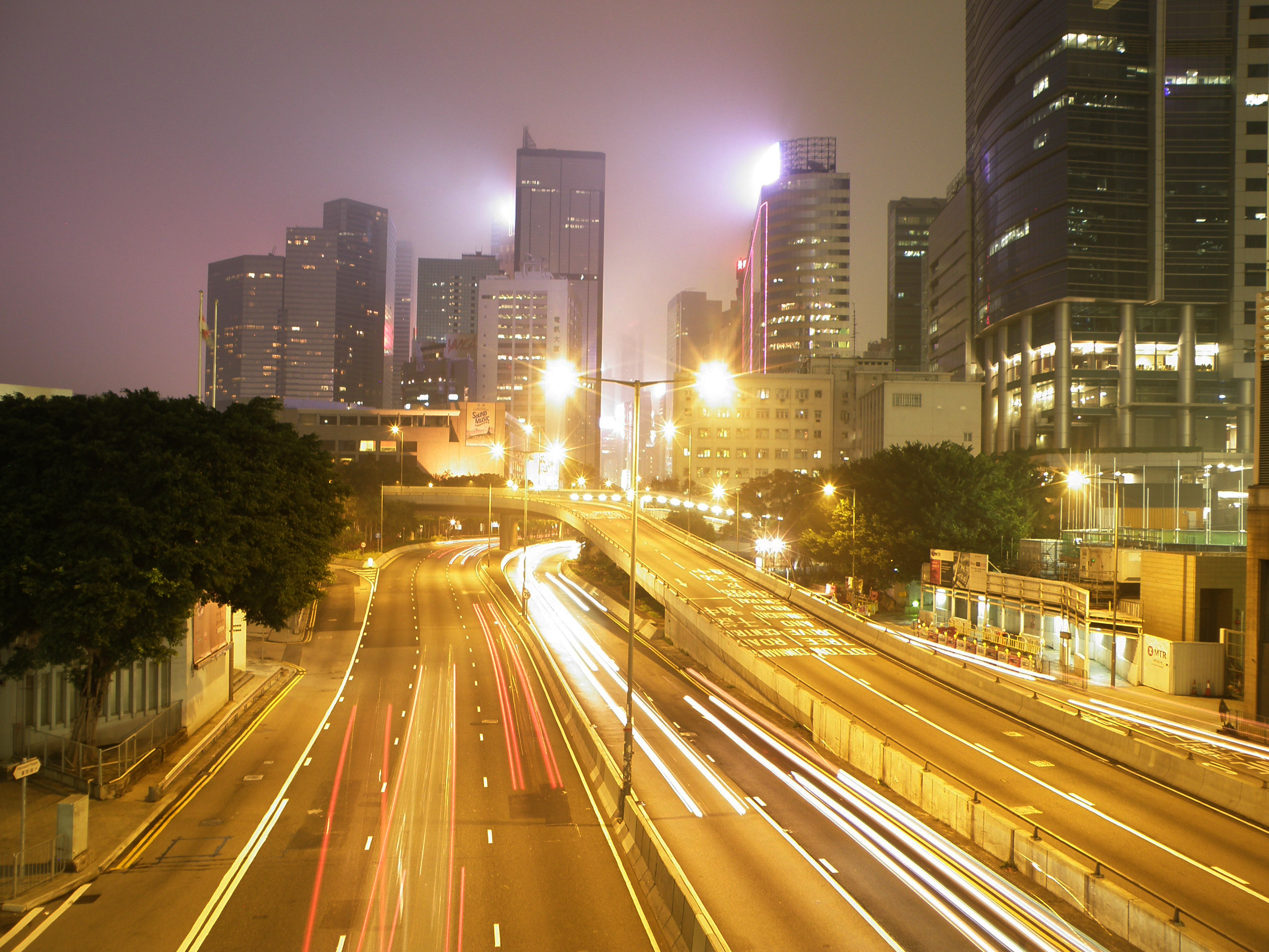 Harcourt Road in Admiralty, Hong Kong.